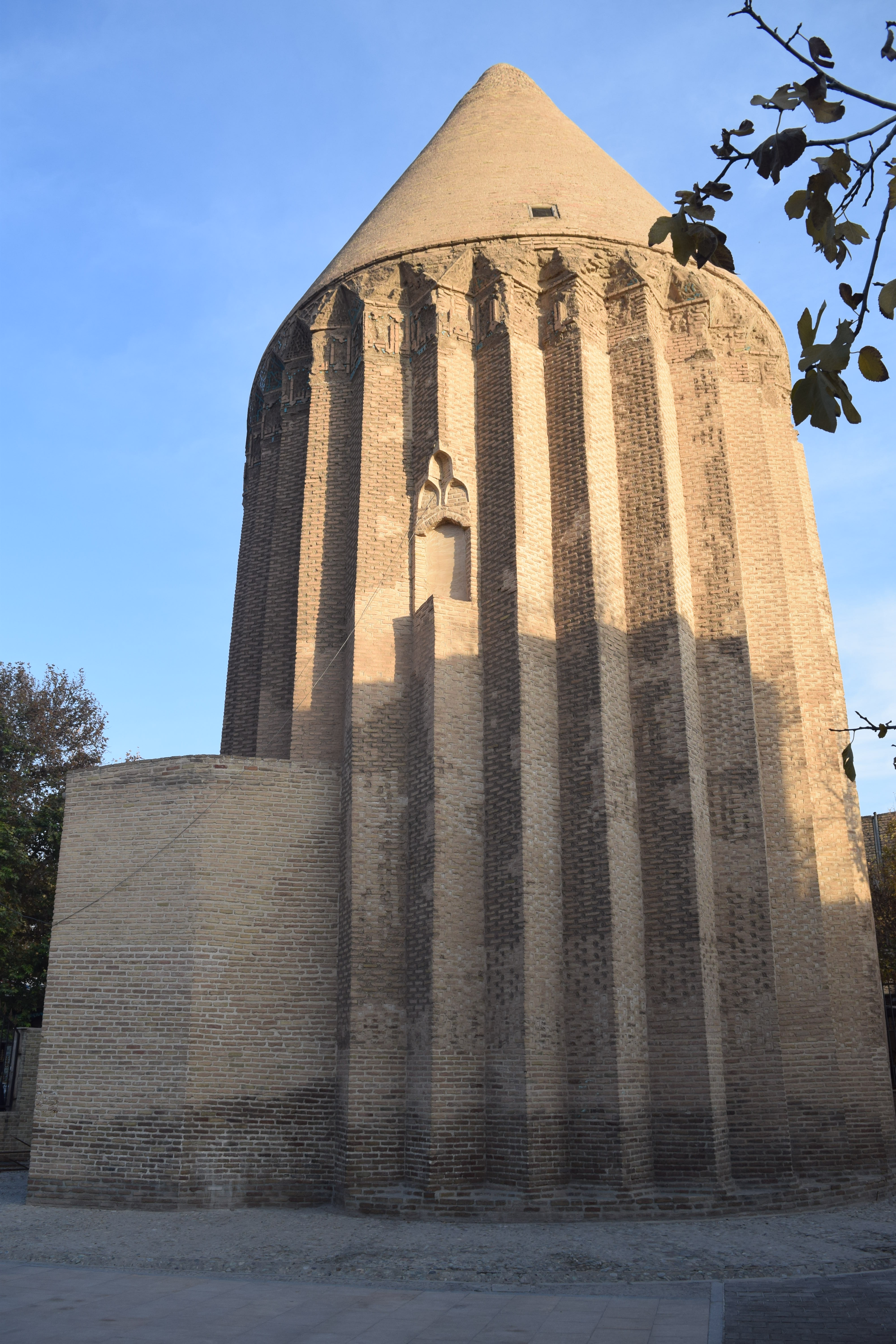 نمایی از برج علا‌الدوله ورامین